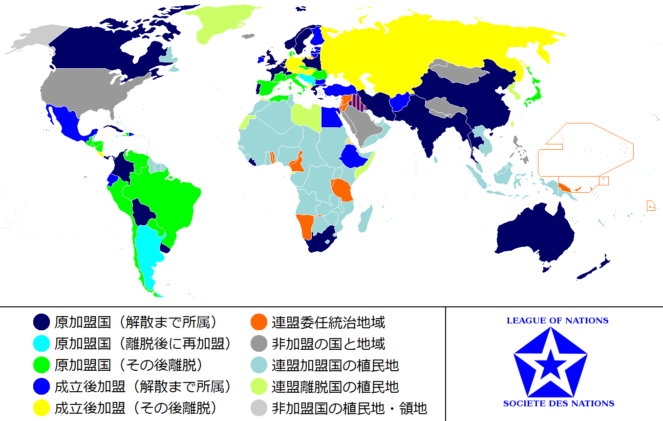 Anachronous map of the world between 1920 and 1945 which shows the The League of Nations and the world.